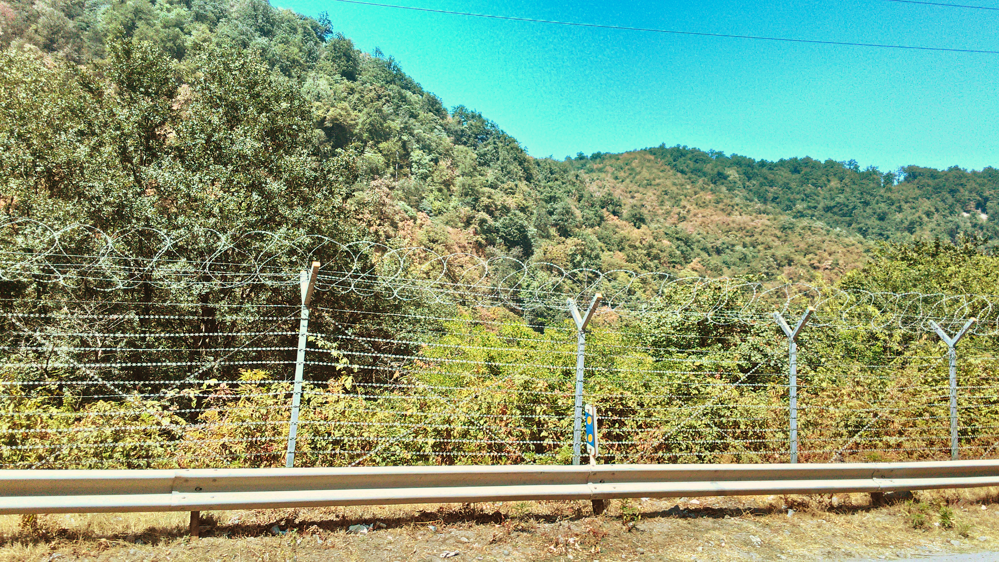 Hirkan national park view from Namin-Astara road